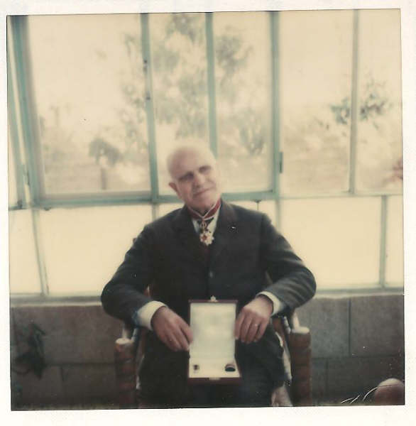 To go on the Jamil Hashweh page in Wikipedia.